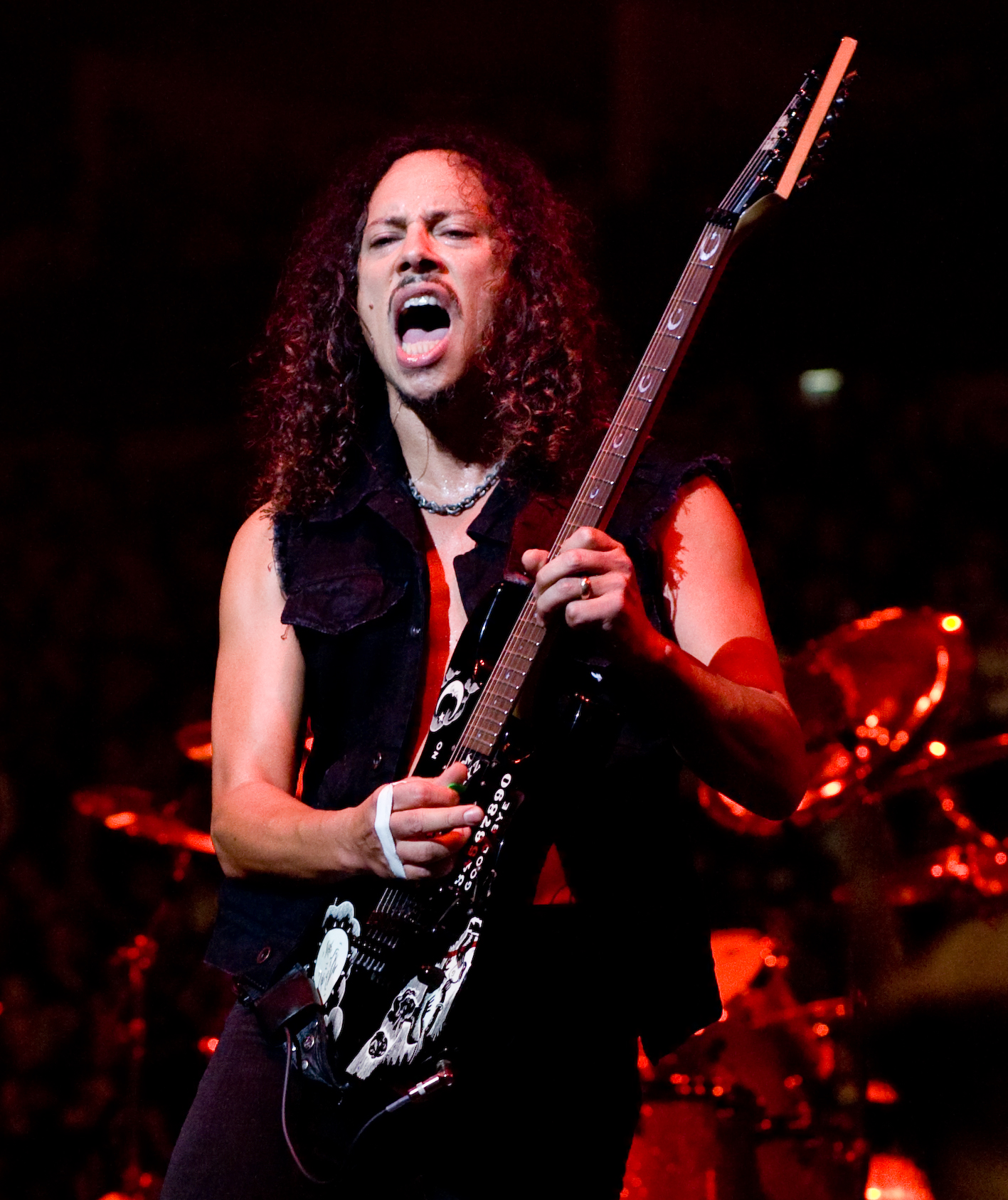 Kirk Hammett performing live with Metallica at O2 in London, 15 September 2008